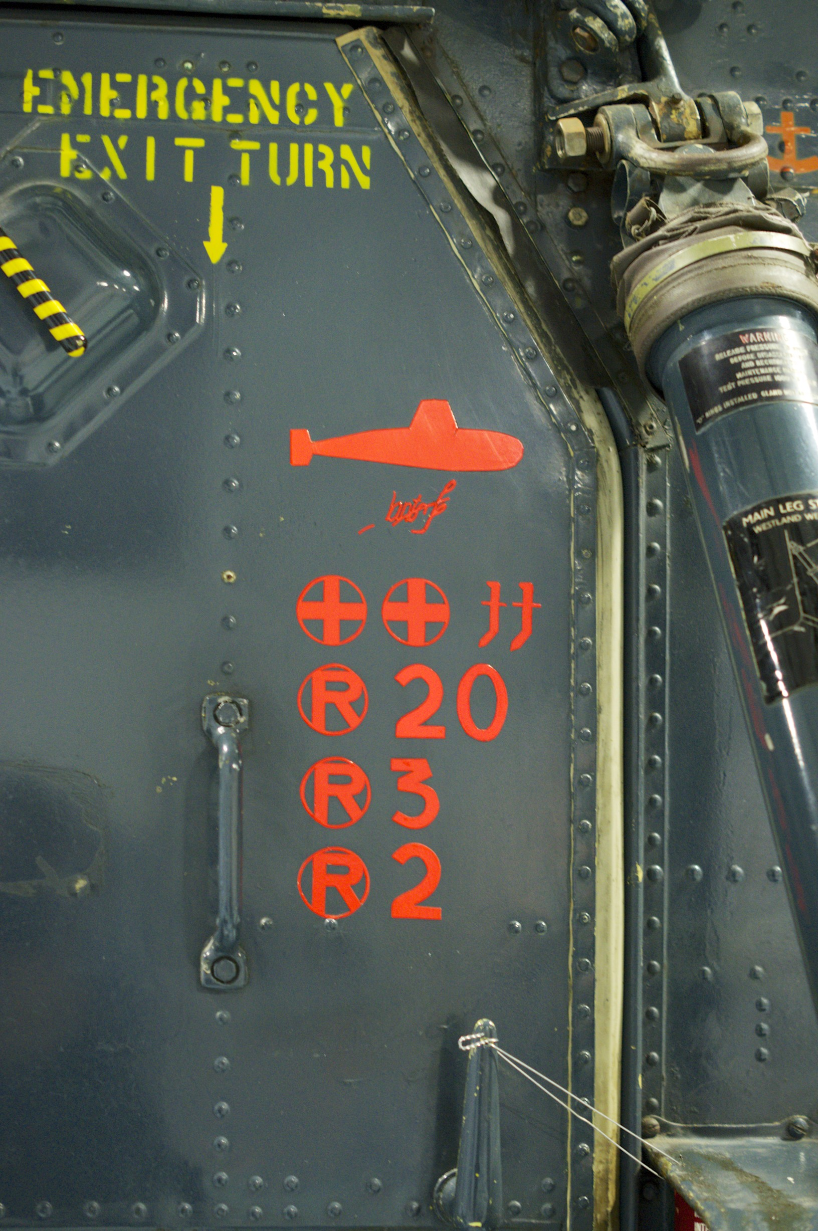 Humphrey